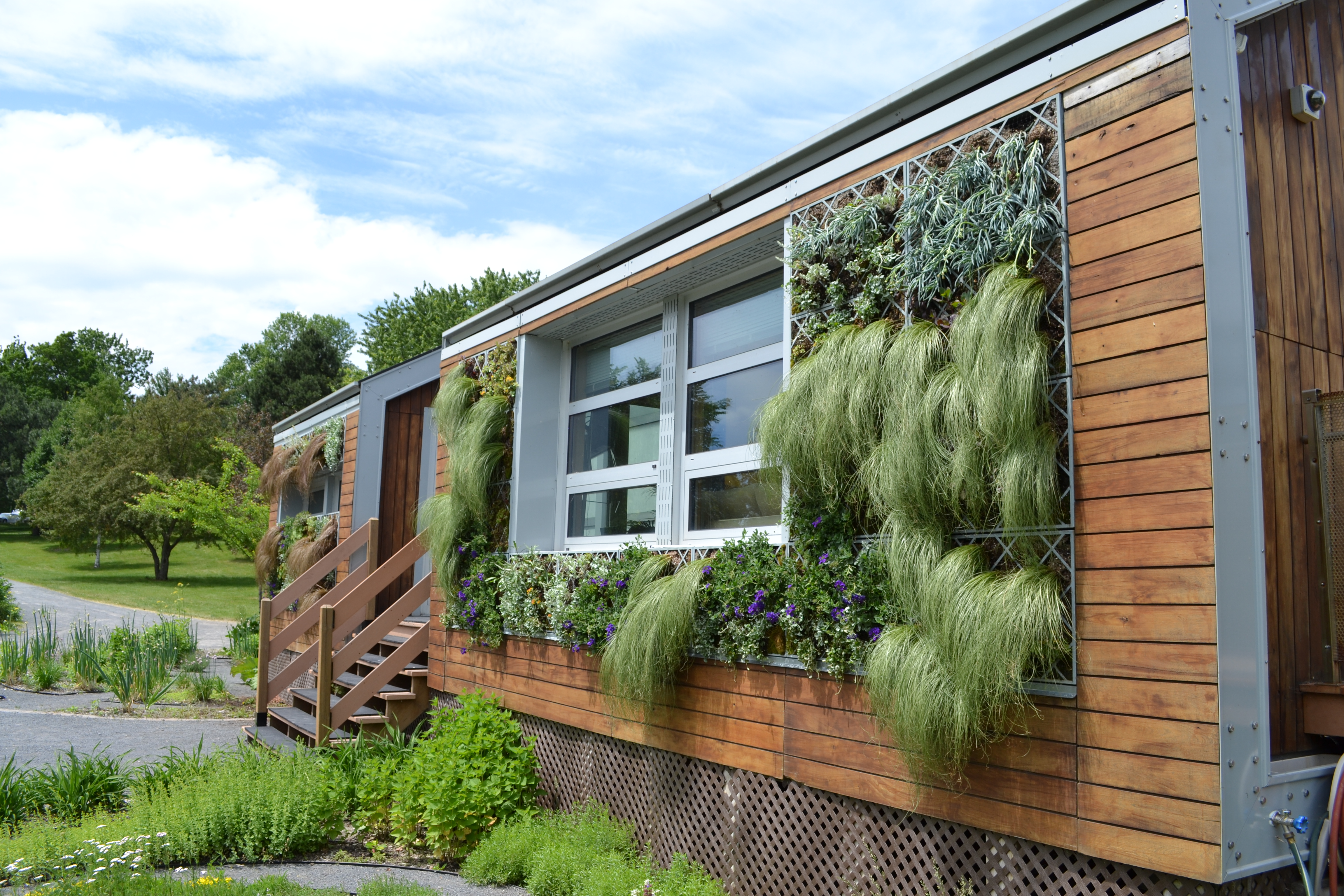 The Ecoological Solar House is located on the Saint Helen's Island, Montreal, Canada. The solar house was designed by students of McGill University, University of Montreal and the École de technologie supérieure in the context of international competition Solar Decathlon in Washington, DC. The Ecoological Solar House, Environment Canada.